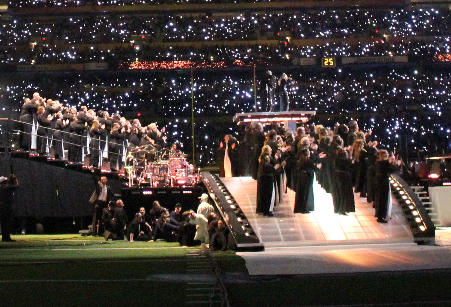 Performance of "Like A Prayer" in the halftime show